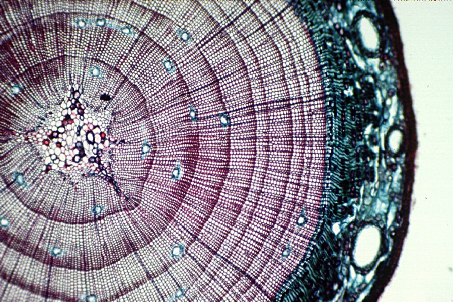 Light micrograph of a cross section of a young Pinus stem